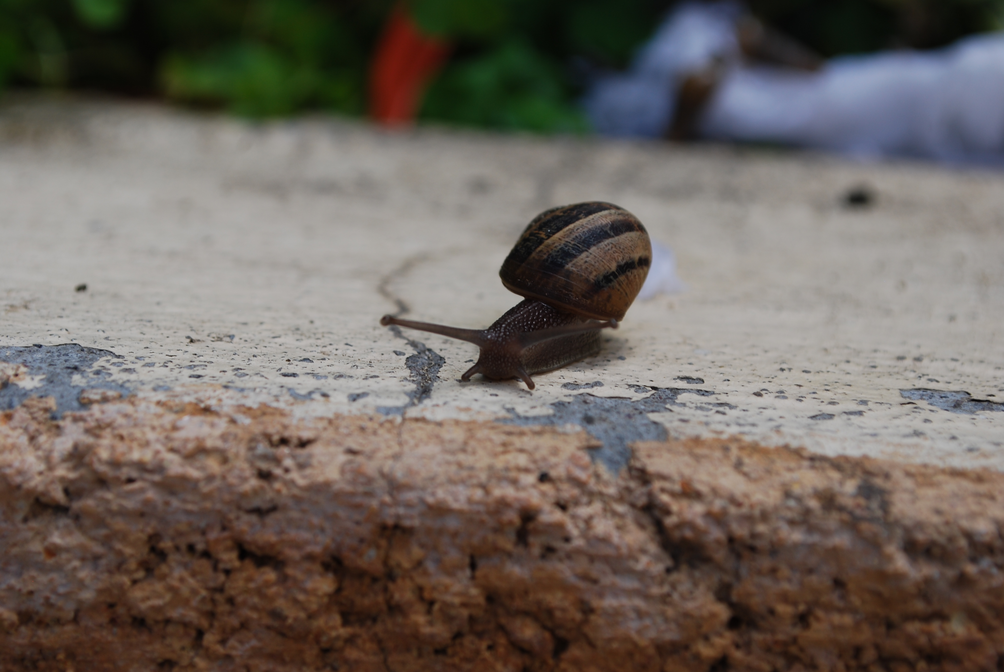 Unidentified snail in Ixtapan de la Sal, Mexico State, Mexico Helix aspersa, determined 04 June 2011 by Francisco Welter-Schultes